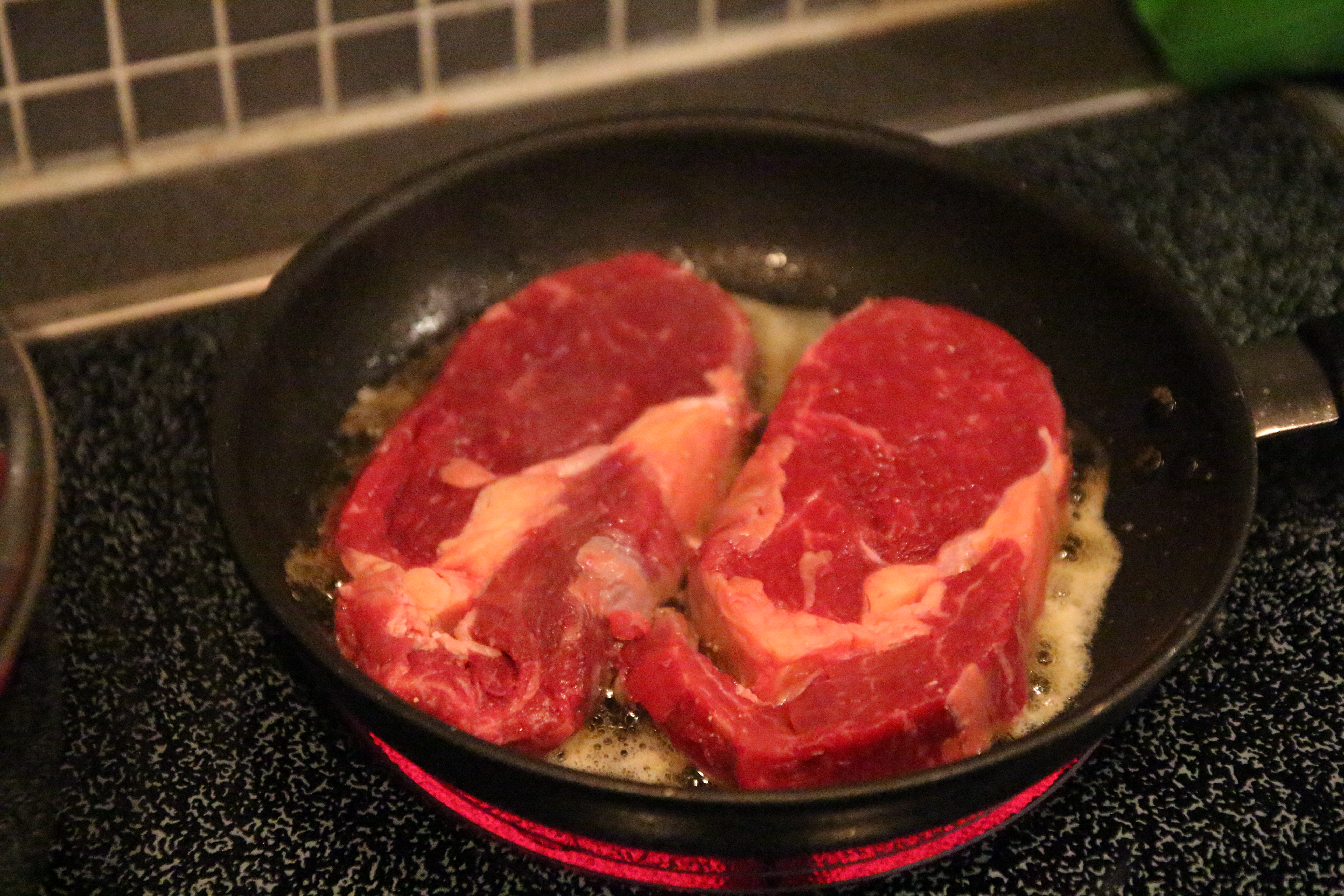 Entrecote in frying pan, meat.